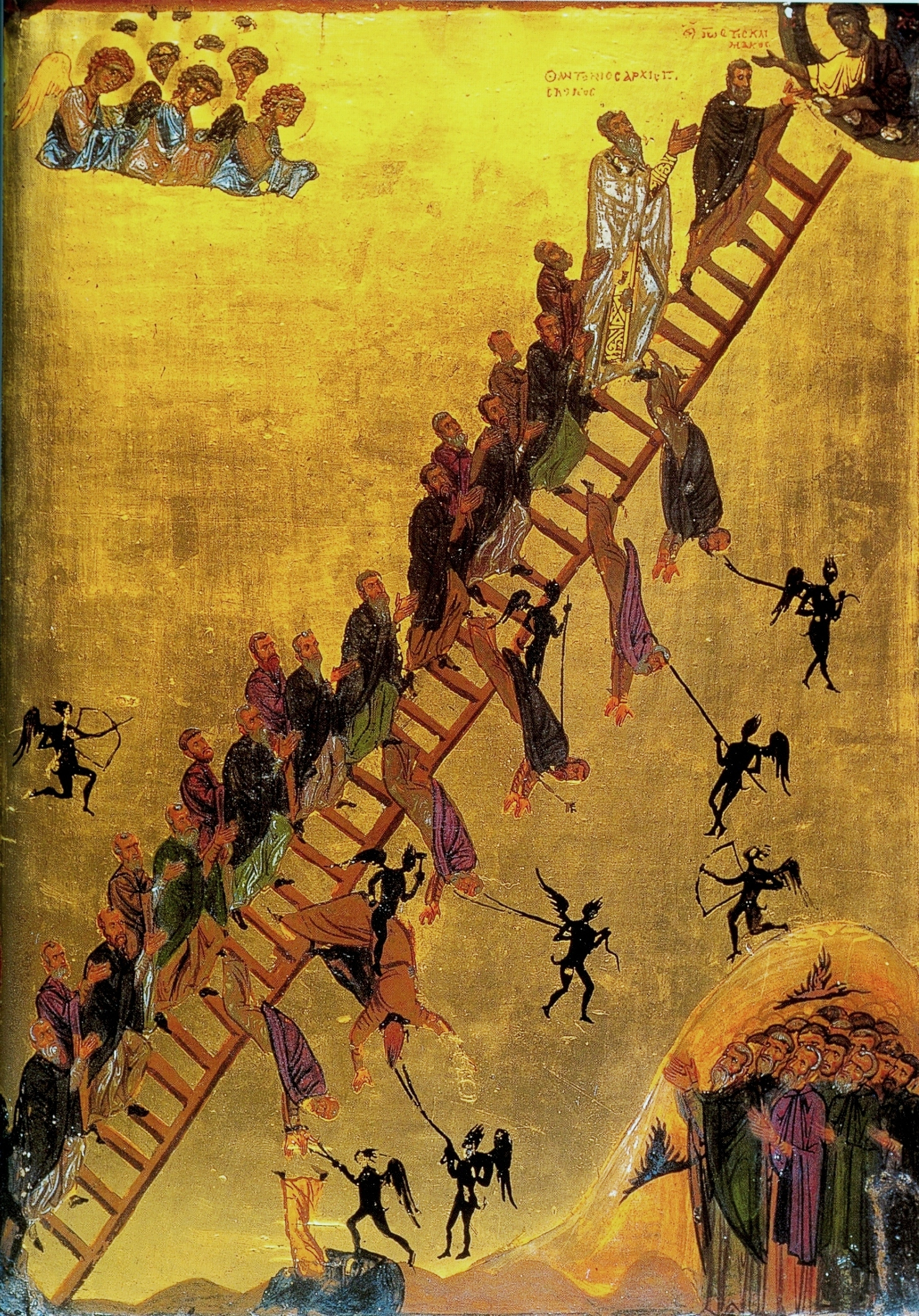 The Ladder of Divine Ascent or The Ladder of Paradise. A 12th-century icon described by John Climacus. Monastery of St Catherine, Mount Sinai. St John Climacus described the Christian life as a ladder with thirty rungs. The monks are tempted by demons and encouraged by angels, while Christ welcomes them at the summit.